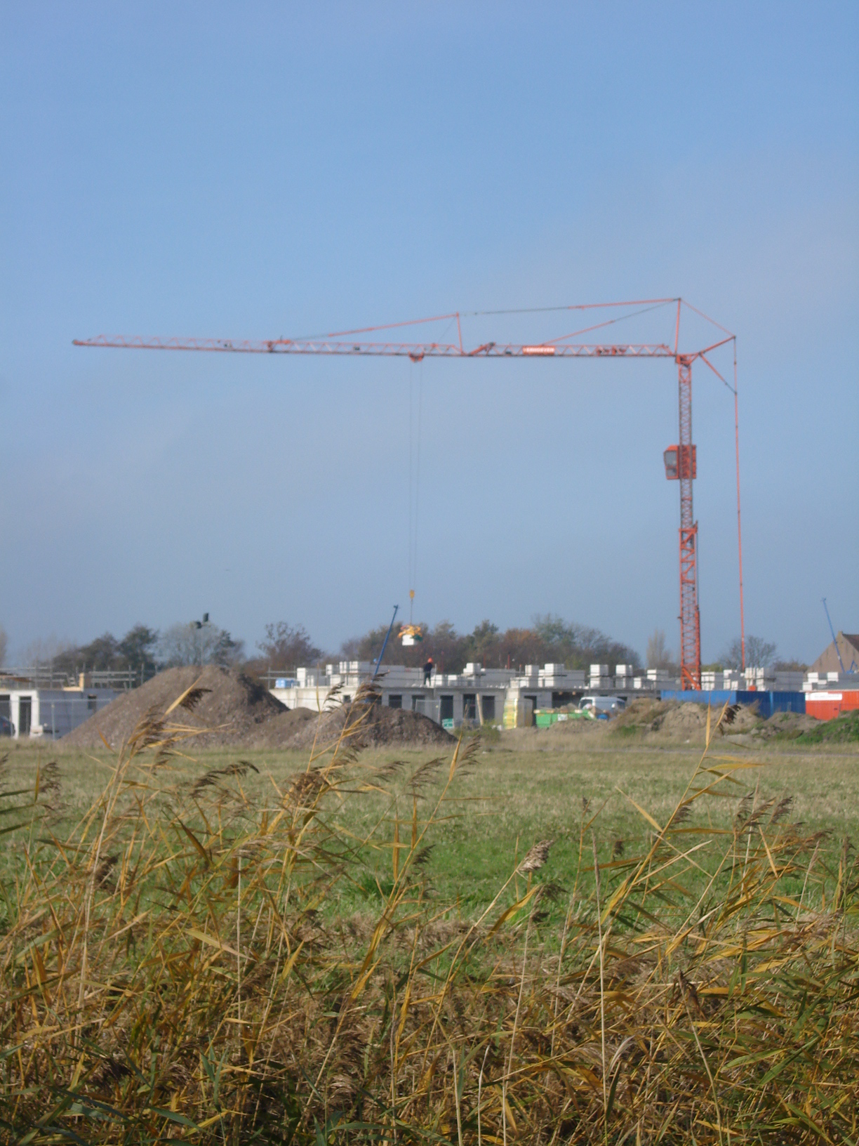 bouw welgelegen ouddorp